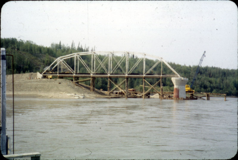 Bridge being built over Wapiti River